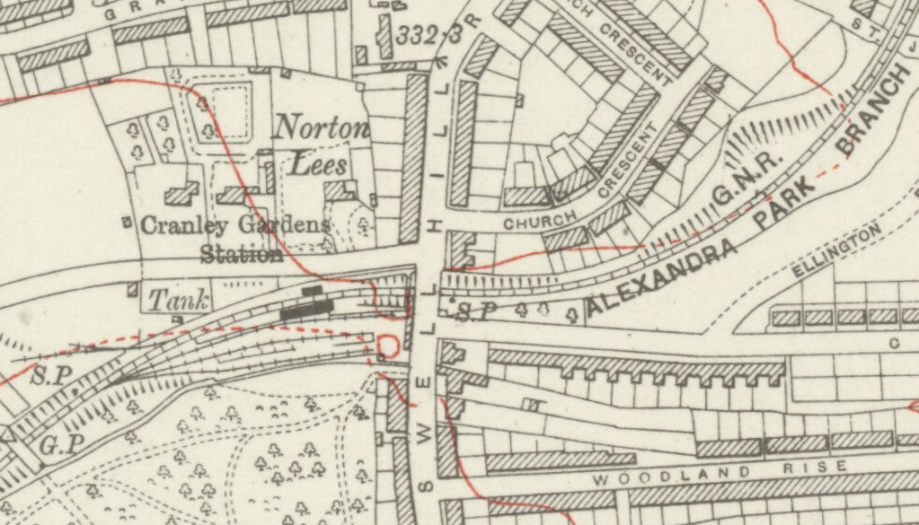 Cranley Gardens station in north London on a 1920 Ordnance Survey map.